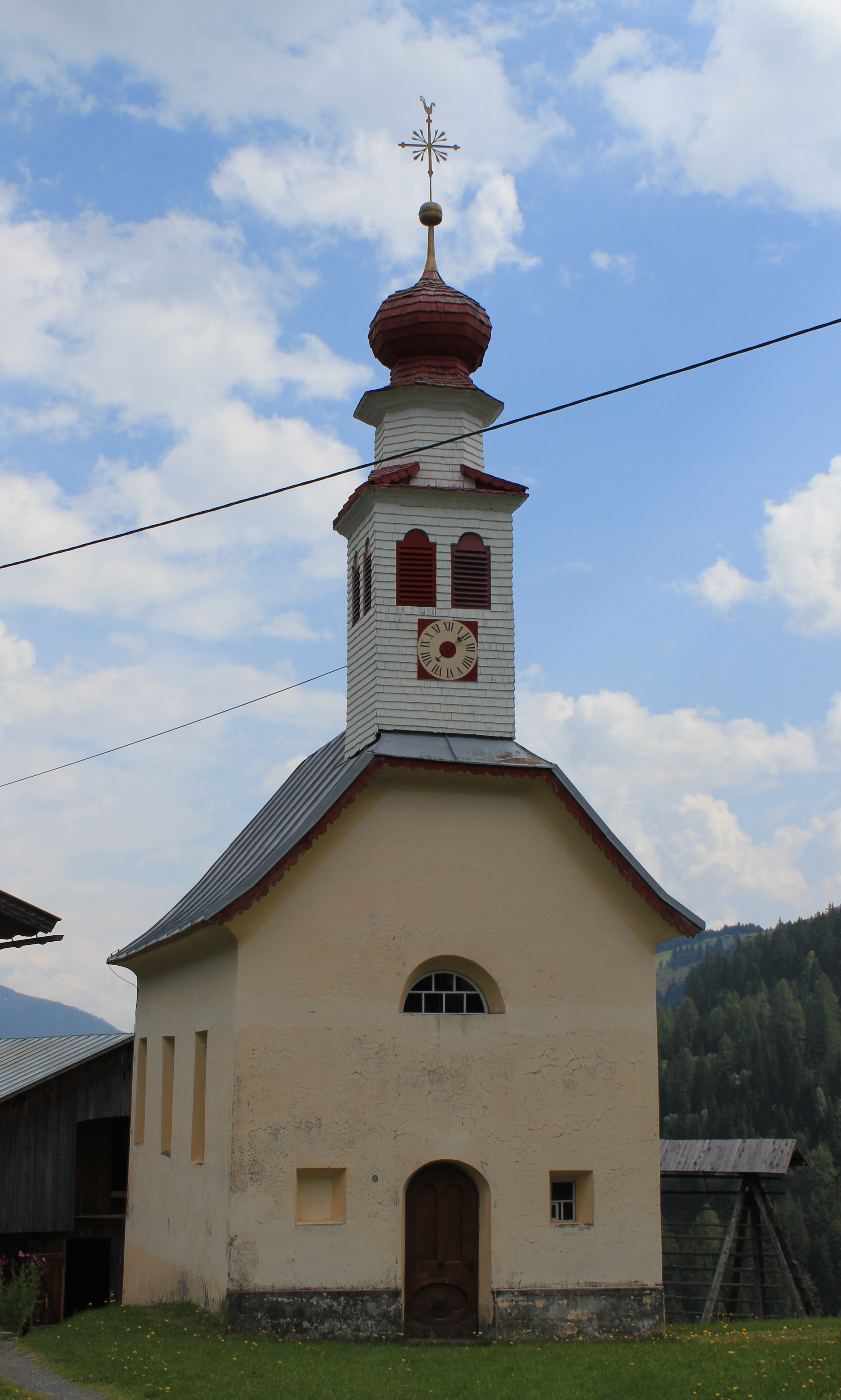 Church in Raut in the community Lesachtal